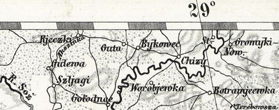 Map. Chizy-1874